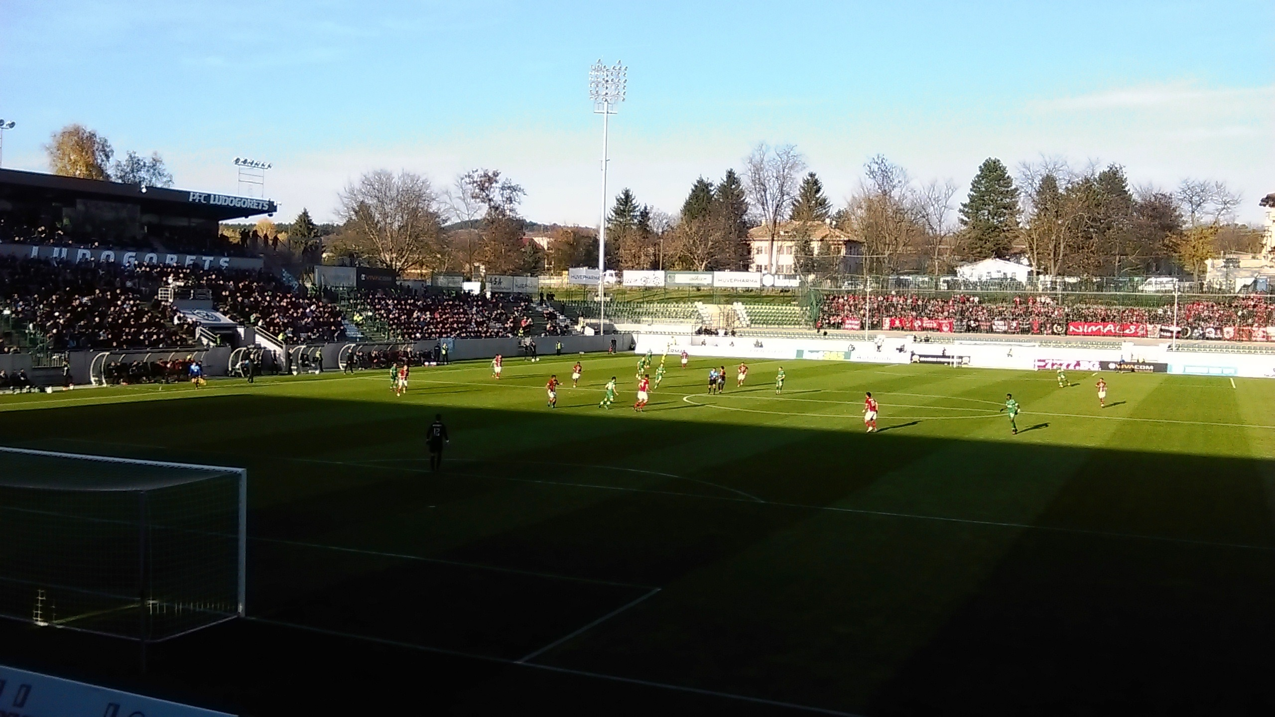 Ludogorets Arena in Razgrad